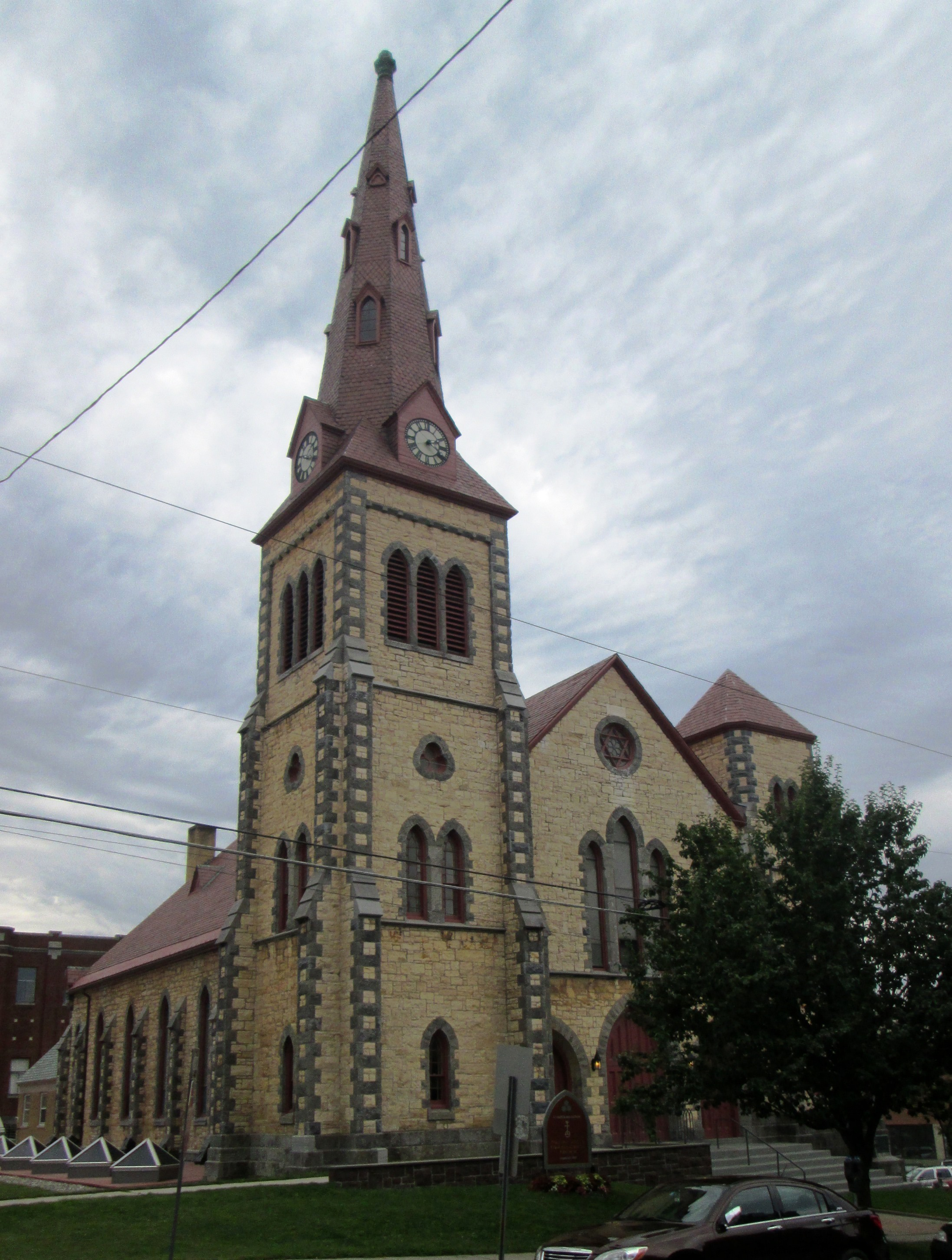 The College Street Congregational Church at 265 College Street on the corner of S. Union Street, in Burlington, Vermont, was built established in 1860 as the Third Congregational Society. The church building was constructed from 1863-66, and in 1888 the name of the congregation was changed to the College Street Congregational Church. It became part of the UNited Church of Christ in 1961. (Source: [1])